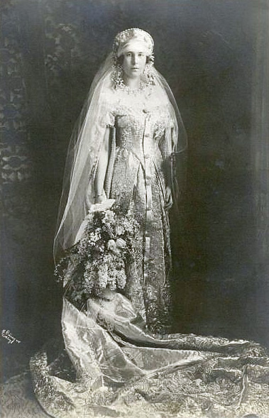 Grand Duchess Maria Kirillovna of Russia, the eldest daughter of Grand Duke Kirill Vladimirovich of Russia and Grand Duchess Victoria Feodorovna.